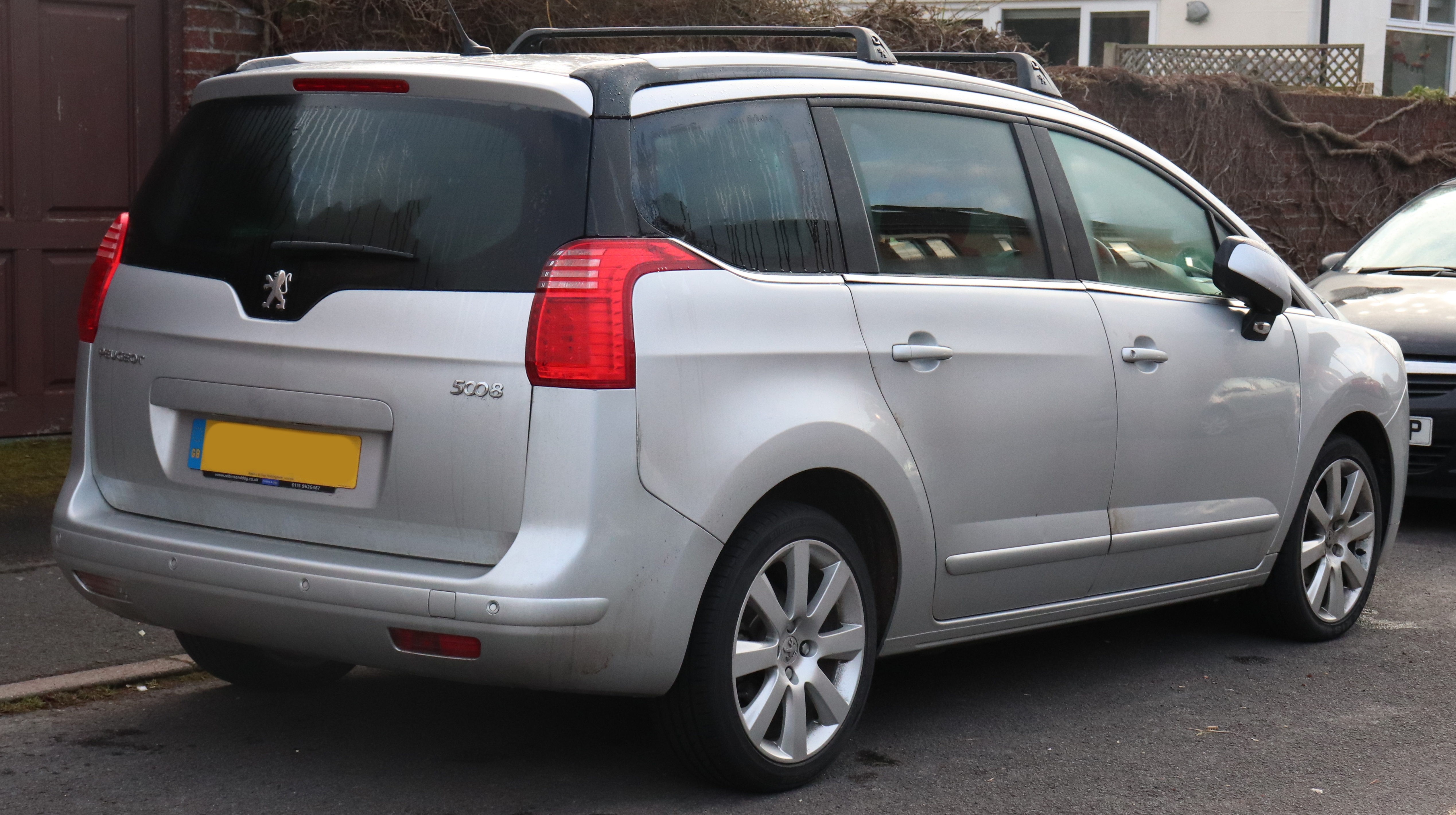 2014 Peugeot 5008 Allure HDi 1.6 Rear Taken in Leamington Spa